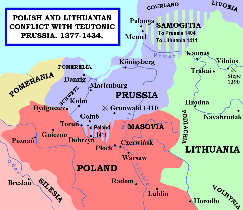 The map shows the areas of conflict between Teutonic Prussia and Poland and Lithuania during the reigns of Jogaila (Władysław II Jagiełło) and Vytautas. The areas on the borders of Prussia and Poland were particularly disputed: towns often changed hands, and Dobrzyń Land (red-and-mauve stripes) was passed back and forward as a result of various deals, treaties, and battles. Samogitia (green-and-mauve stripes) was also strongly disputed between the Teutonic Order and Lithuania, because the Knights wished to link up with the Livonian Lands further north. After the Battle of Grunwald in 1410, a series of treaties established Polish control over Dobrzyń Land and Lithuanian control over Samogitia for good, marking the beginning of the Teutonic State's decline.